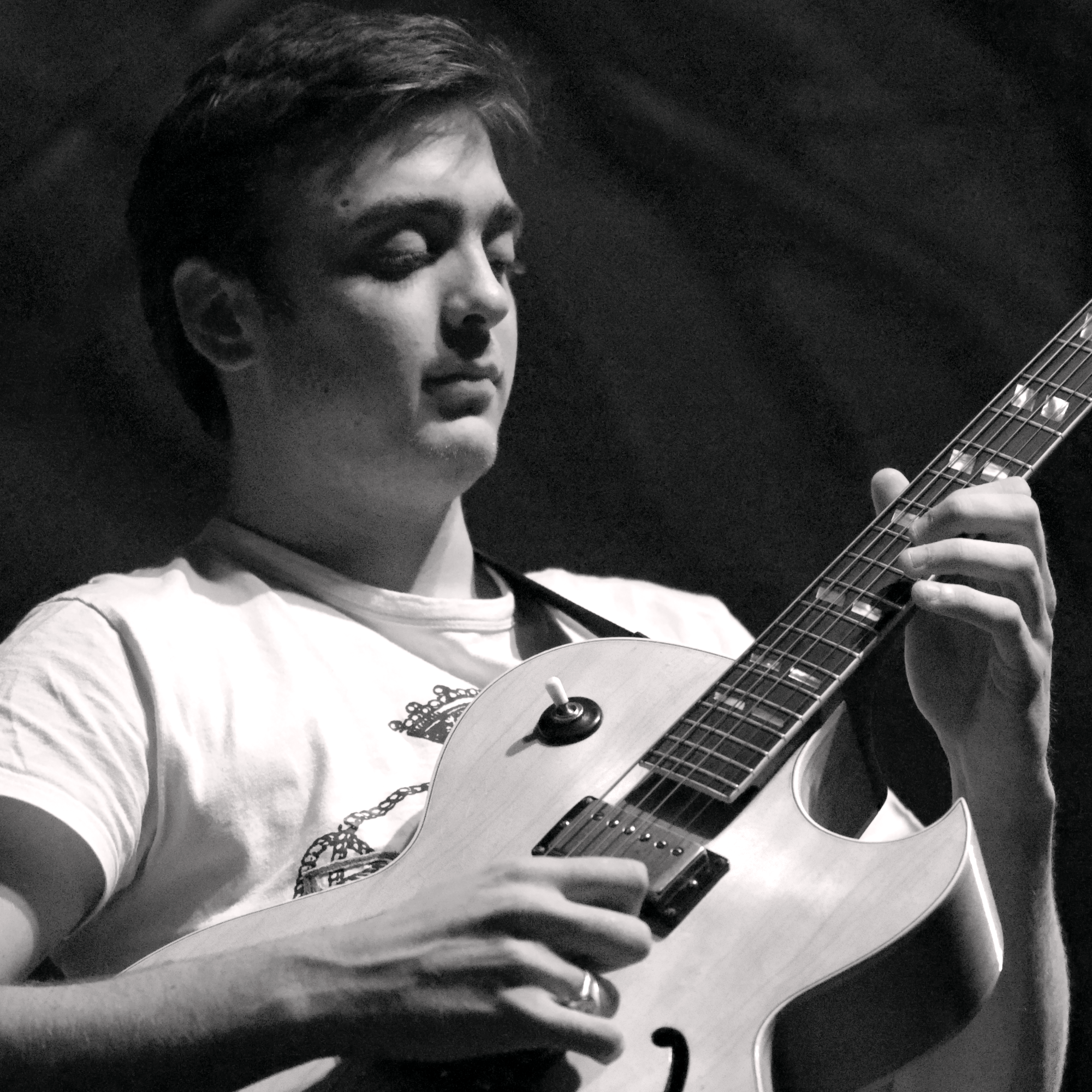 Outdoor portrait of David Reinhardt, french jazz guitar player, taken on 2007-08-09. He was guest of François Arnaud Quintet during the "Cap Jazz" Festival in Cap d'Ail (French Riviera).